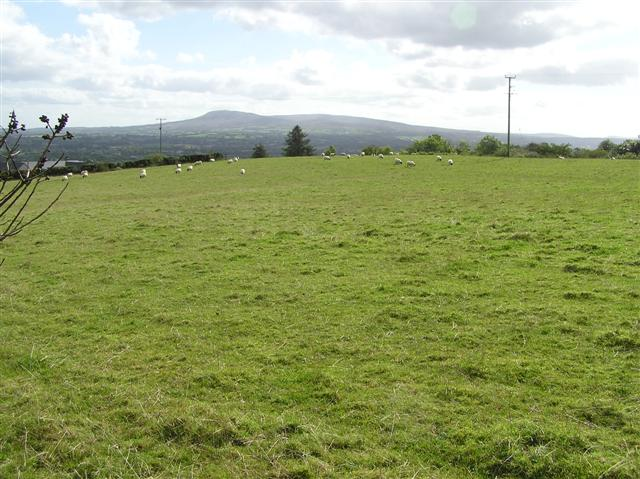 Bracaghreilly Townland A lovely day amongst the Sperrins